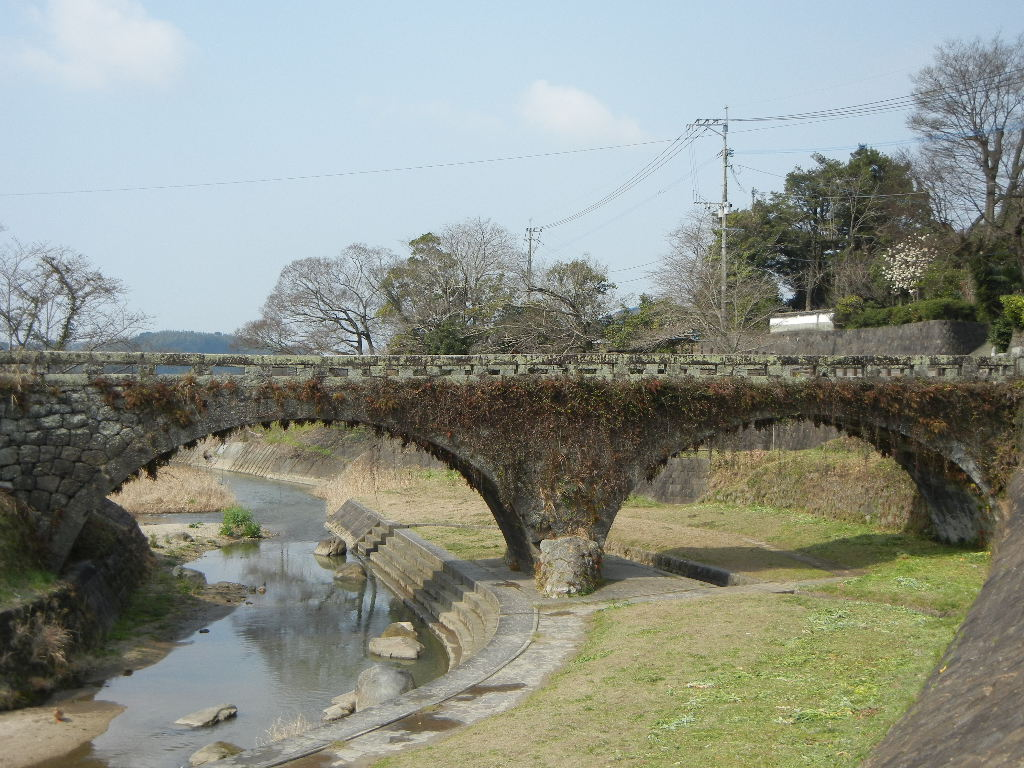 Iwamotobashi. 荒尾市にある岩本橋, Arao.